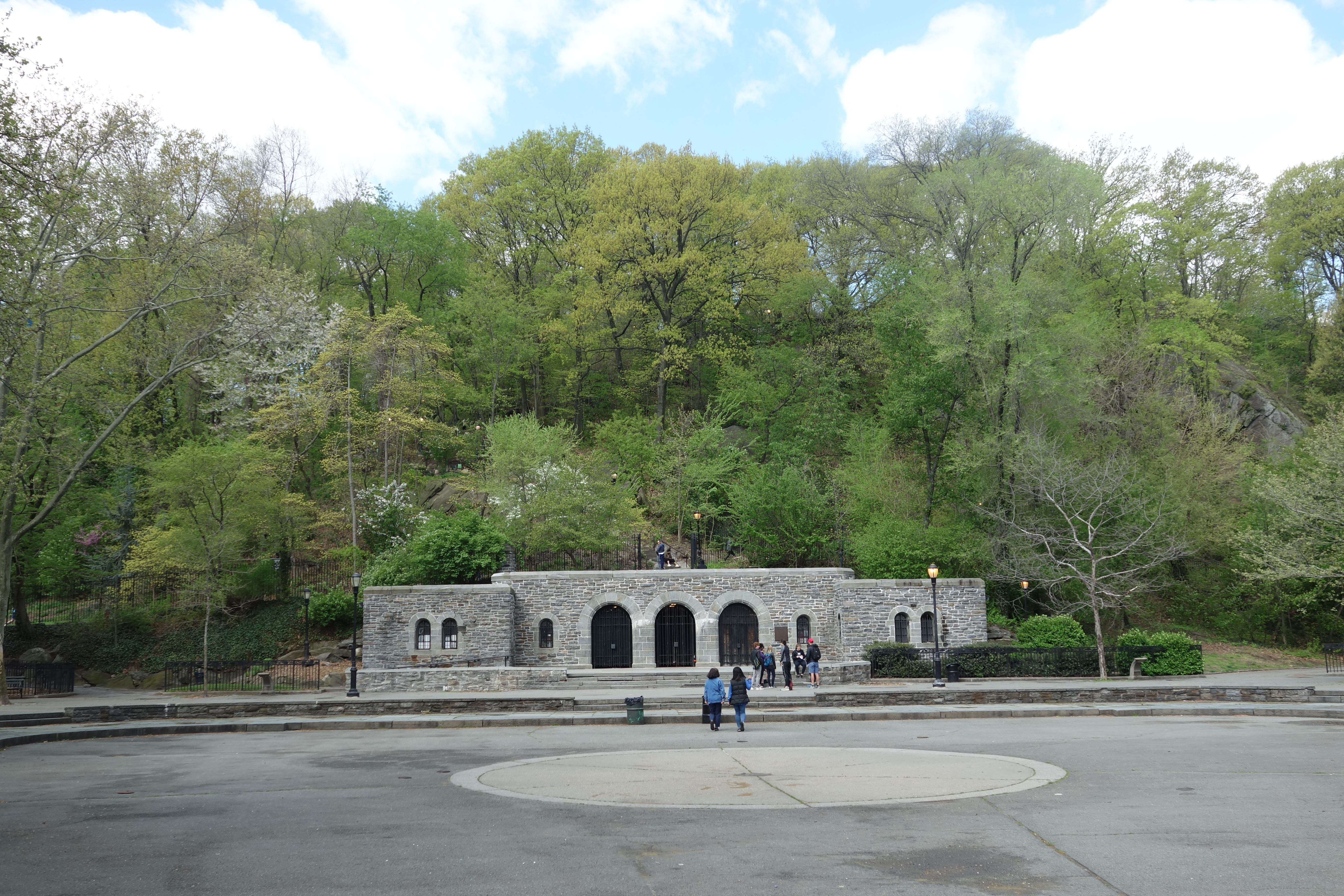 Inside Anne Loftus Playground at the northern tip of Fort Tryon Park, at Broadway, Dyckman Street, and Riverside Drive in Inwood / Fort George, Manhattan. This doesn't feel like the typical playground; it really feels like it was designed to mesh with the rest of Fort Tryon Park. Pictured are the large splash pad (foreground) and the comfort station at the foot of the hill containing the rest of the park. The features form an interesting courtyard and view corridor.